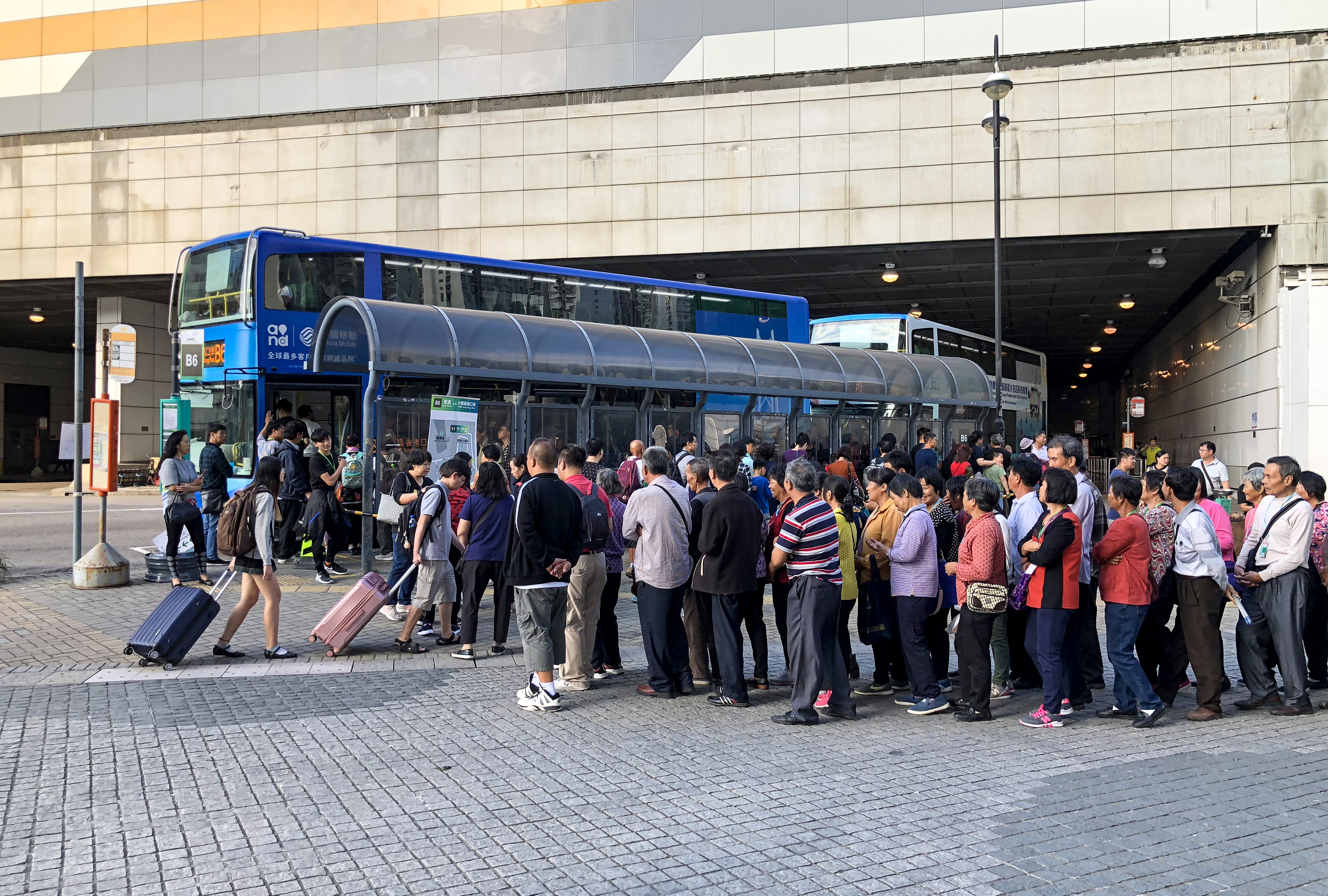 A massive queue boarding B6, the bus route to Hong Kong-Zhuhai-Macau Bridge Hong Kong Port, is outside the Tung Chung Terminus, near the banners of FLG.